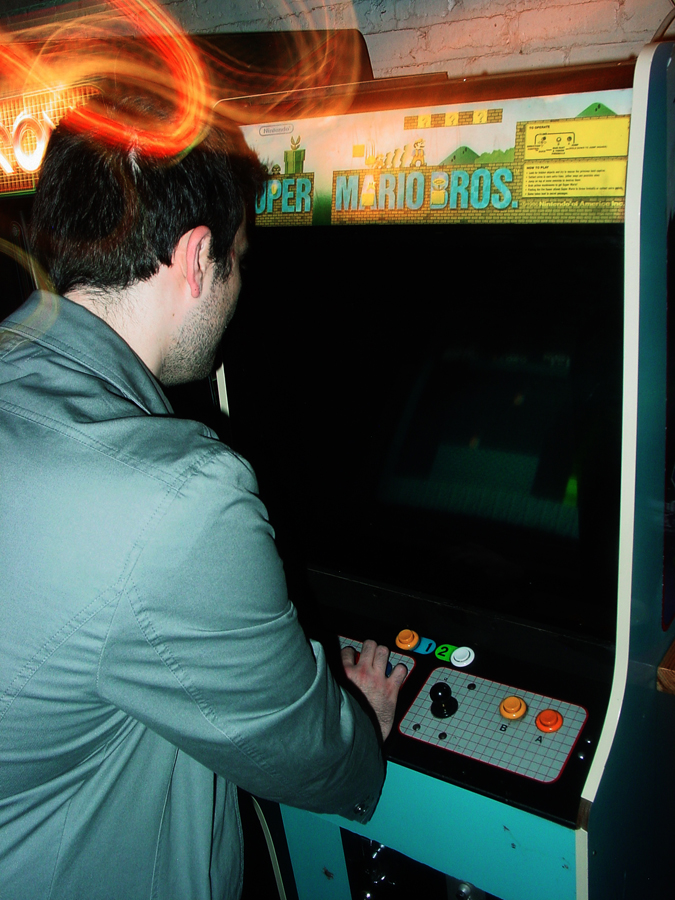 A man playing Vs. Super Mario Bros., the arcade version of the NES classic Super Mario Bros., that was released in 1986.